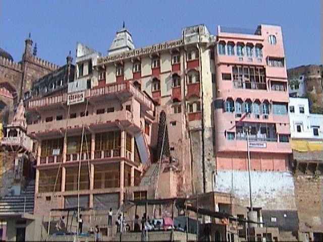 Hindu culture, have attributed supreme importance to the preservation of tradition Classical civilizations, and especially the Indian one, have attributed supreme importance to the preservation of tradition. Its central idea was that social institutions, scientific knowledge and technological applications need to use "heritage" as a "resource". Using contemporary language, we would say that ancient Indians considered, as social resources, both economic assets (like natural resources and their exploitation structure) and factors promoting social integration (like institutions for preserving knowledge and maintaining civil order). Ethics considered that what had been inherited should not be consumed, but should be handed over, possibly enriched, to successive generations. This was a moral imperative for all, except in the final life stage of sannyasa